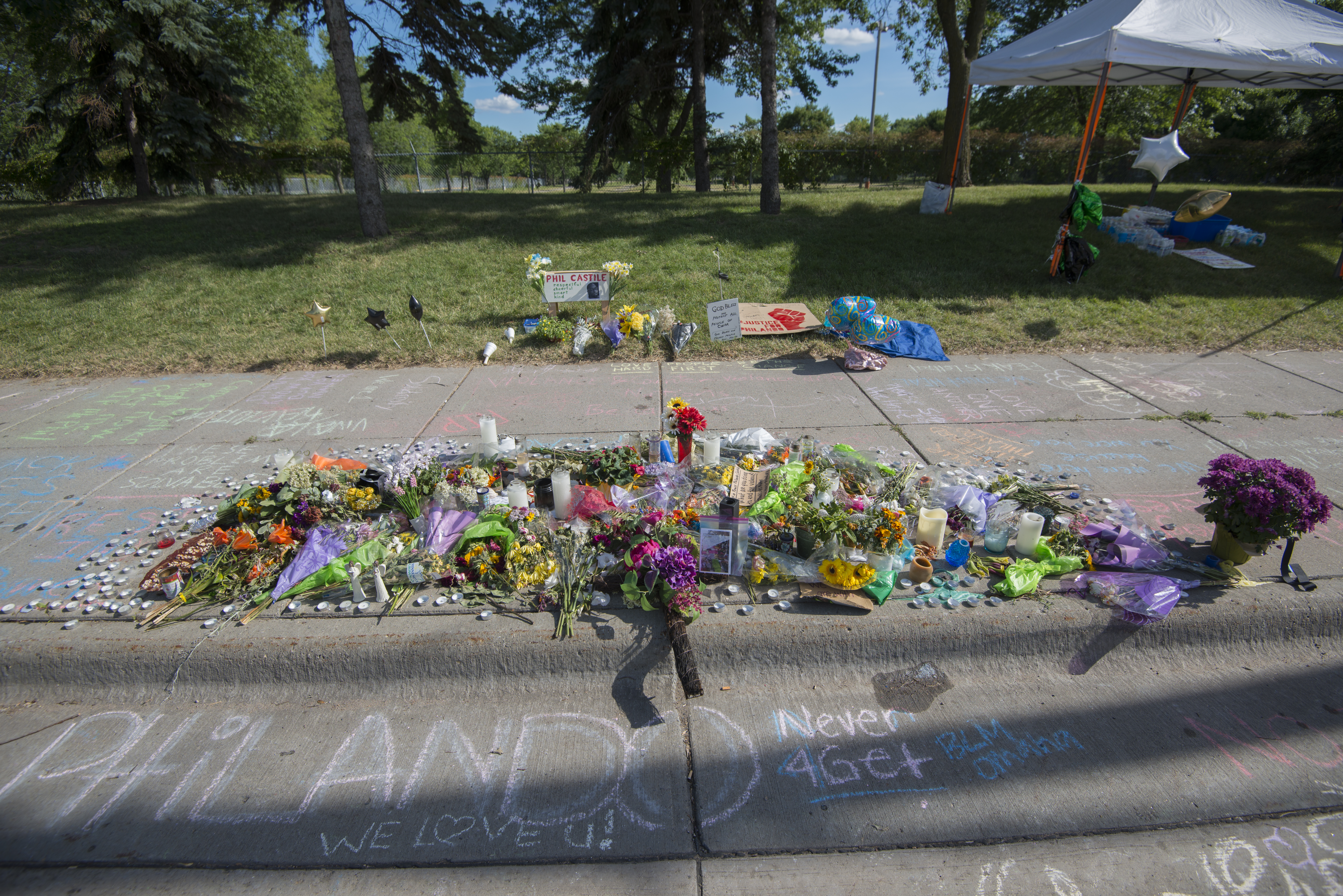 July 9, around 5:30pm Falcon Heights, Minnesota Philando Castile was shot to death by a St. Anthony Police officer during a traffic stop in Falcon Heights, MN on July 9, 2016. Falcon Heights is a suburb of St. Paul and Minneapolis. 2016-07-09 This is licensed under a Creative Commons Attribution License. Give attribution to: Fibonacci Blue